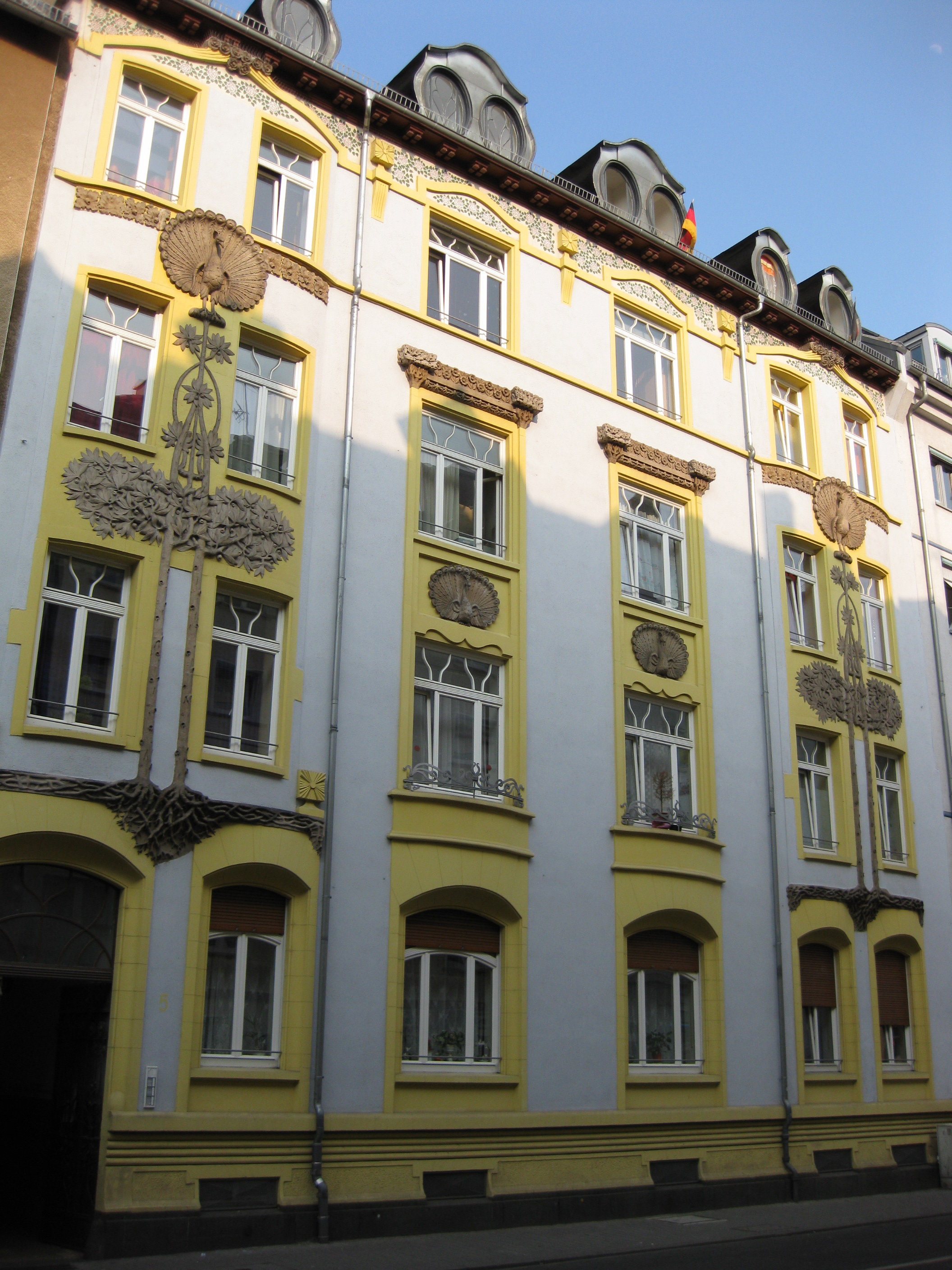 Art Deco appartment house in Offenbach am Main, Luisenstraße 5